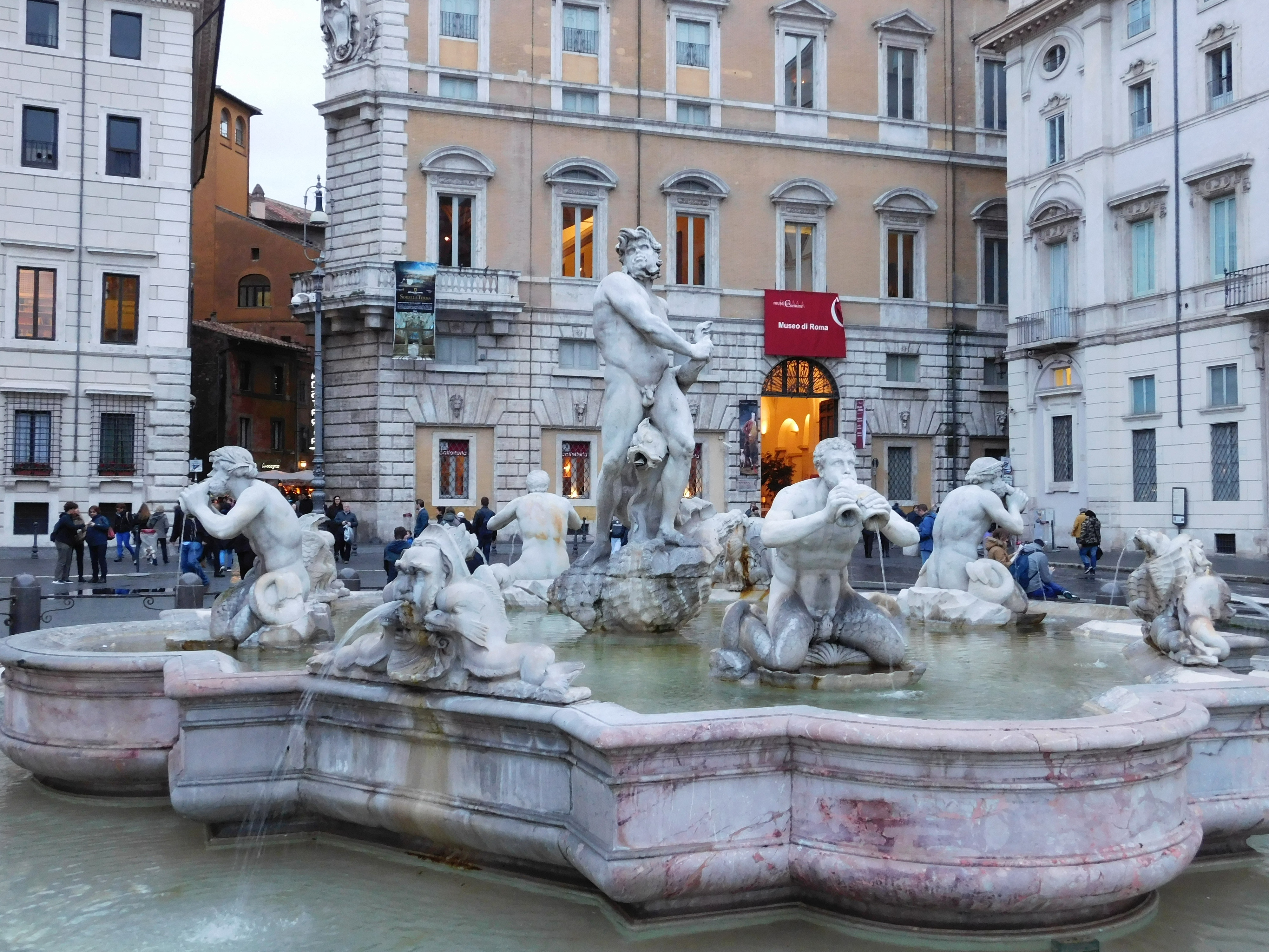 Rome, Piazza Navona (the Moor Fountain)